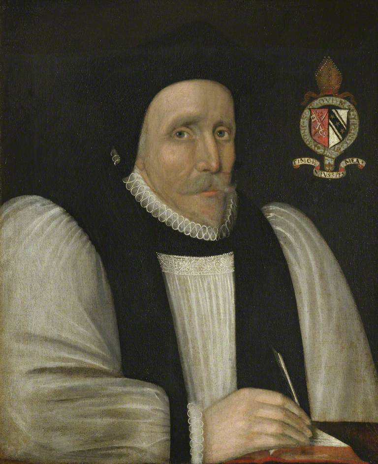 Lancelot Andrewes (1555-1626)